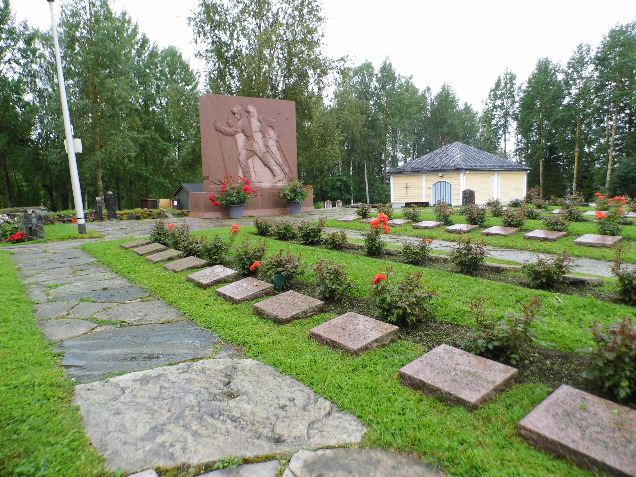 Military cemetary at Karunki Church in Tornio, Finland